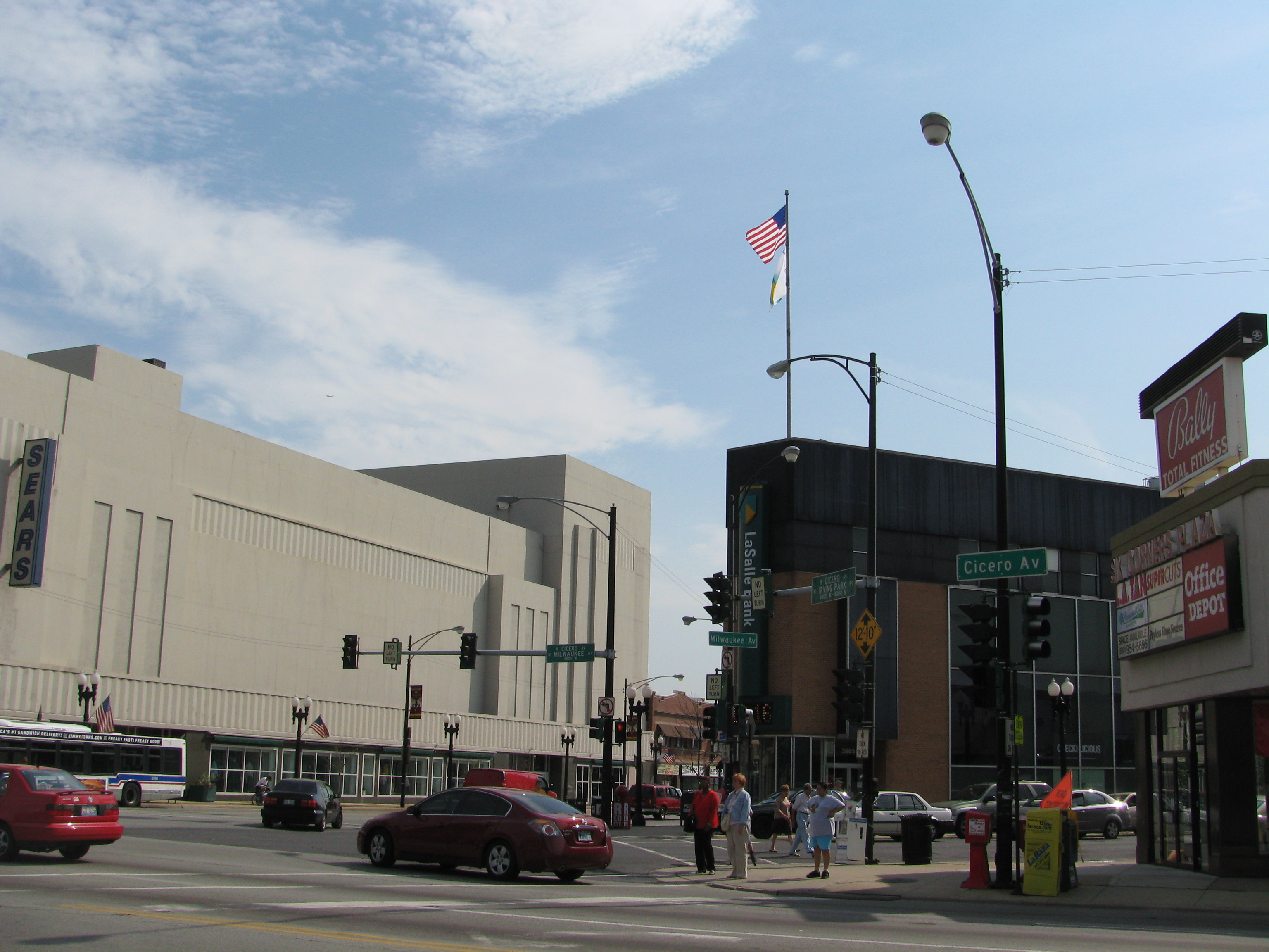 Six corners